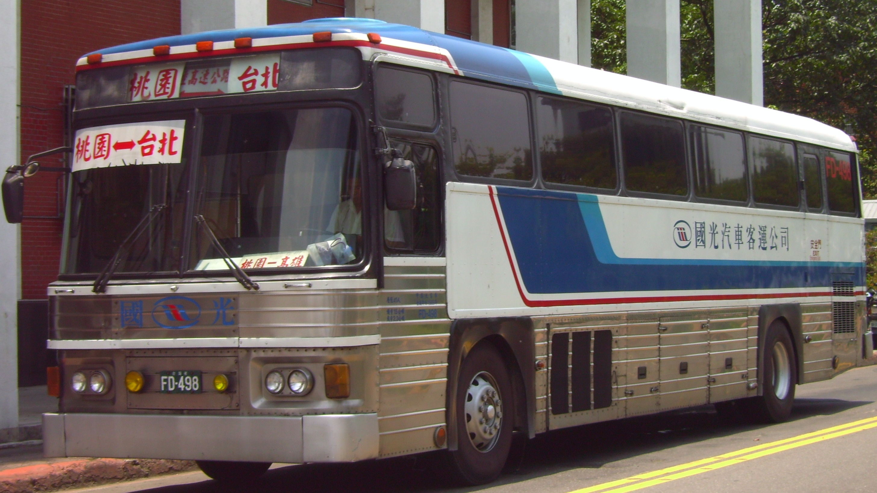 Kuo-Kuang Motor Transport Company Ltd. HINO LCM8SA Bus.